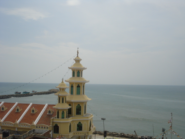 this is the church of st.Arokiyanathar Alayam